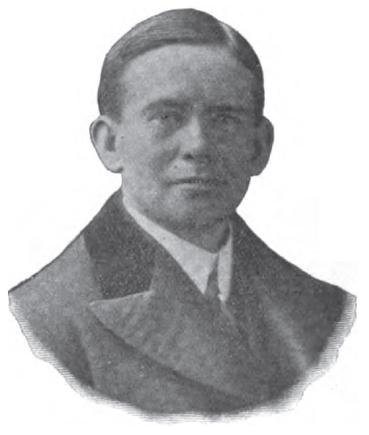 an Ohio politician named Charles Q. Hildebrant